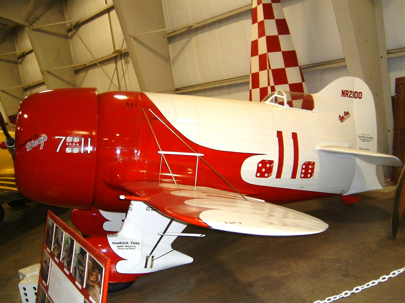 Gee Bee R-1 replica at New England Air Museum Windsor Locks CT. USA